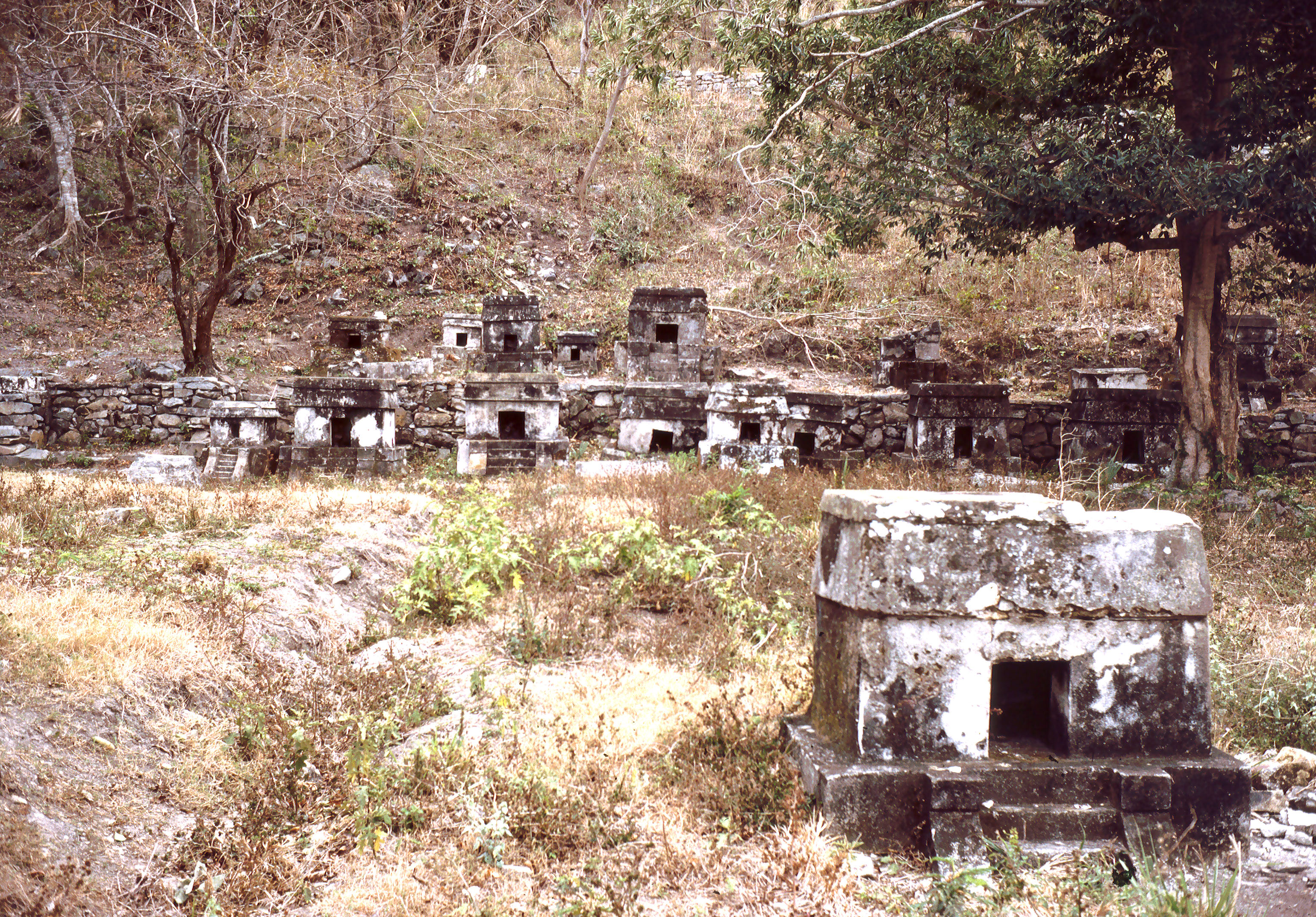 Quiahuiztlan, Veracruz, Mexico: necropilis.